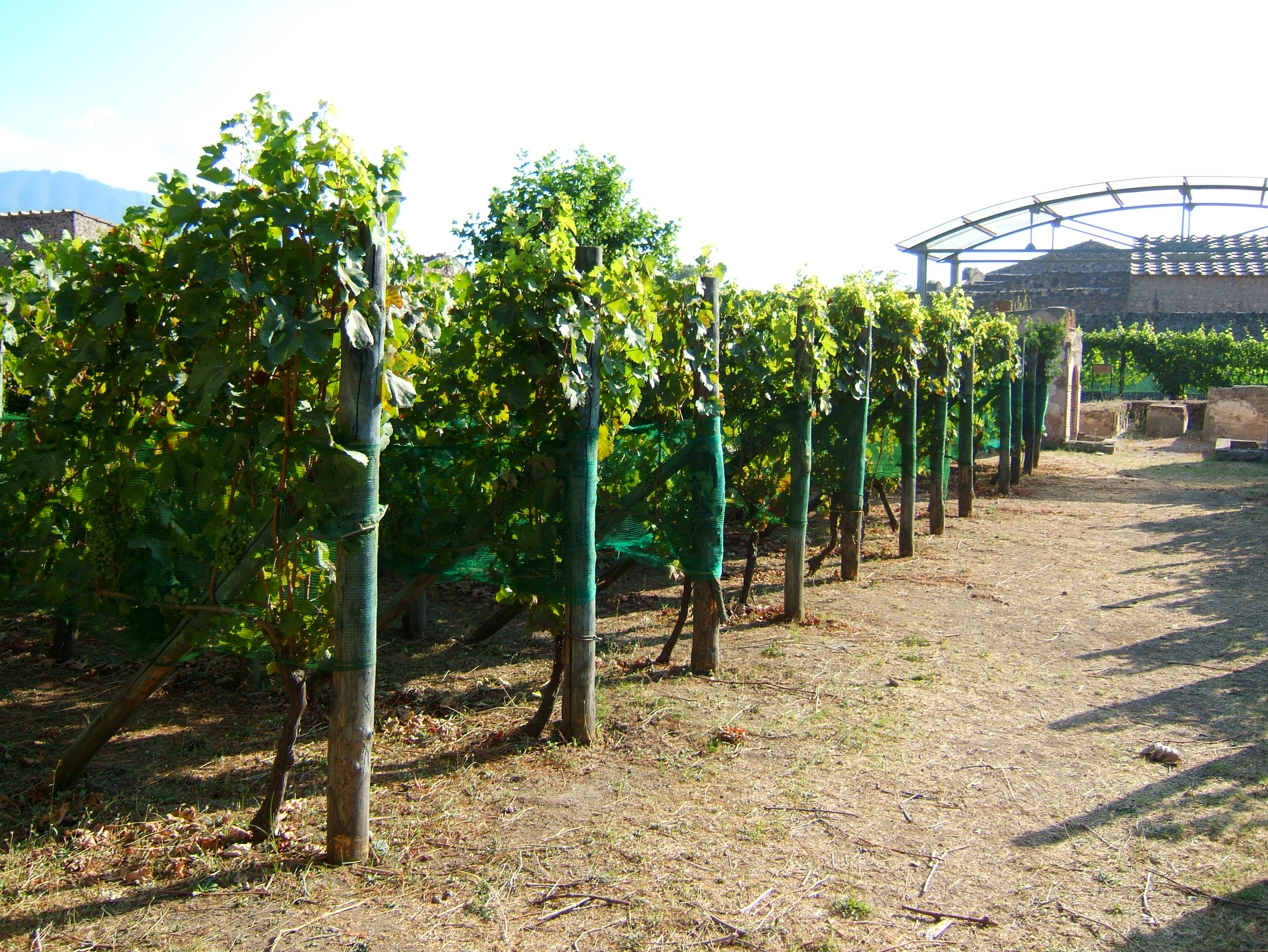 One of the vineyards planted with the assistance of Mastroberardino winery to recreate the wines made 2000 years ago in Pompeii.